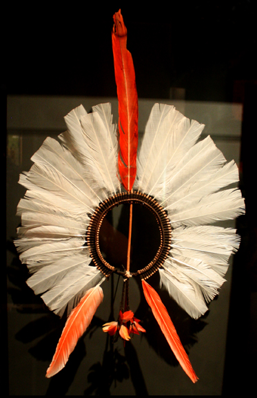 Kayapó headdress, or ákkápa-ri, ca. 1910, National Museum of the American Indian collection, E 13/6110